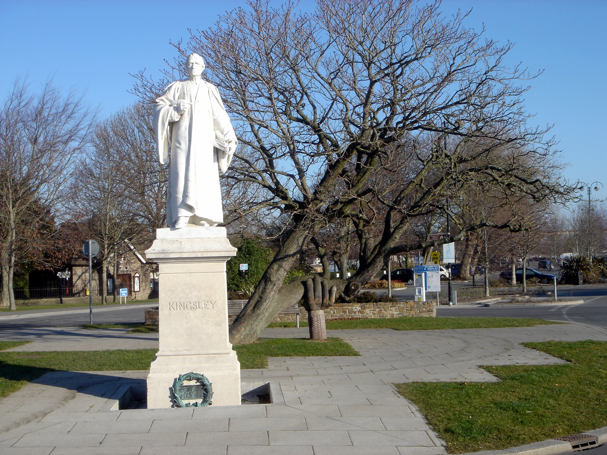 A statue of Charles Kingsley, beside the "wonky conker" tree with its "helping hand", Bideford, Devon, England (UK).